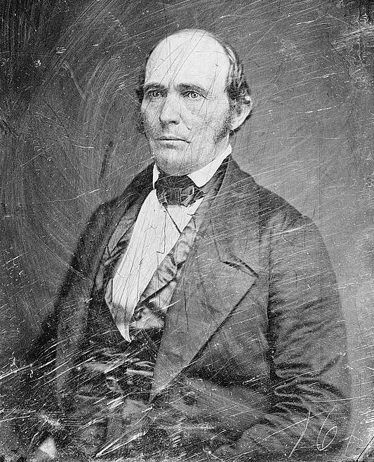 Hopkins L Turney